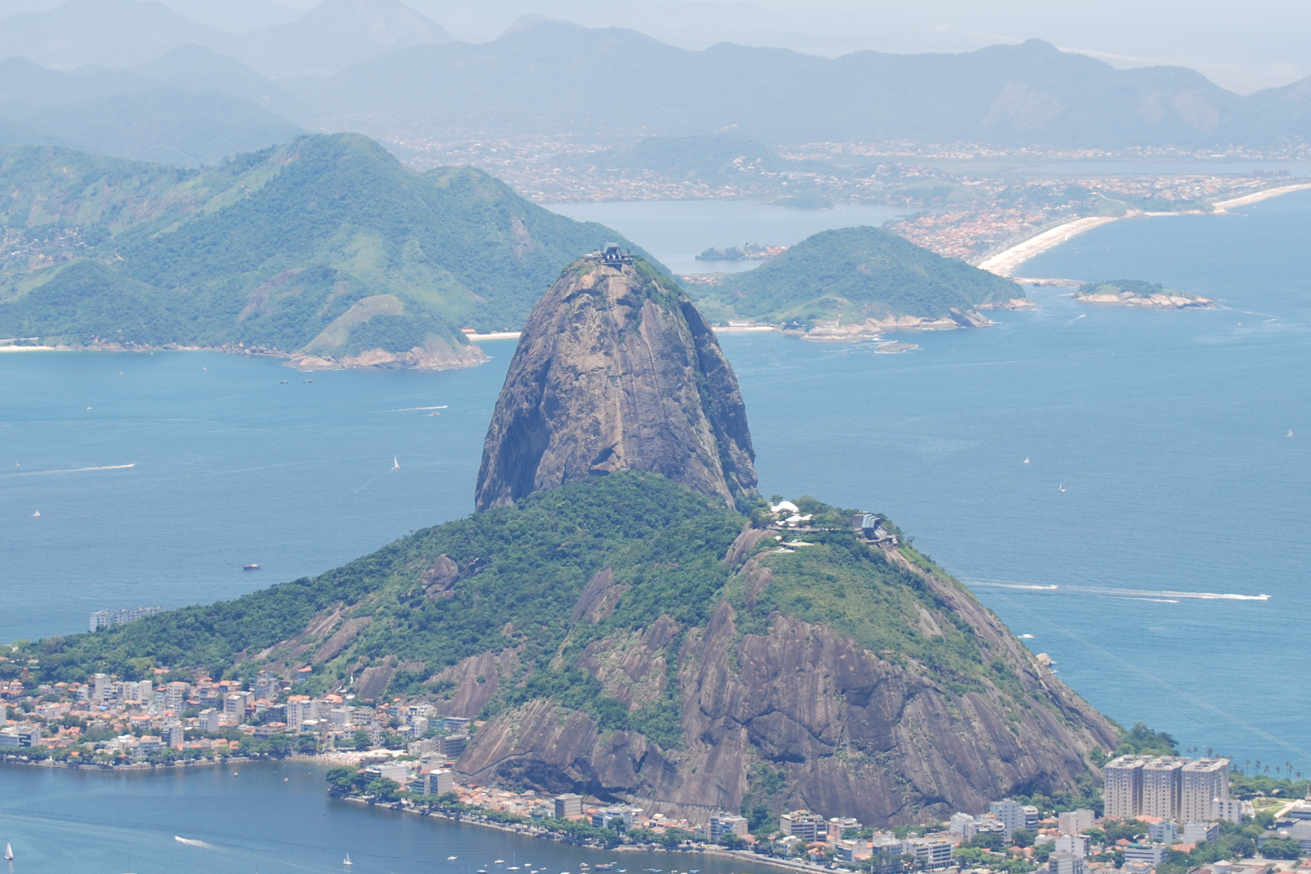 Sugarloaf Mountain as seen from Corcovado, Rio de Janeiro, Brazil